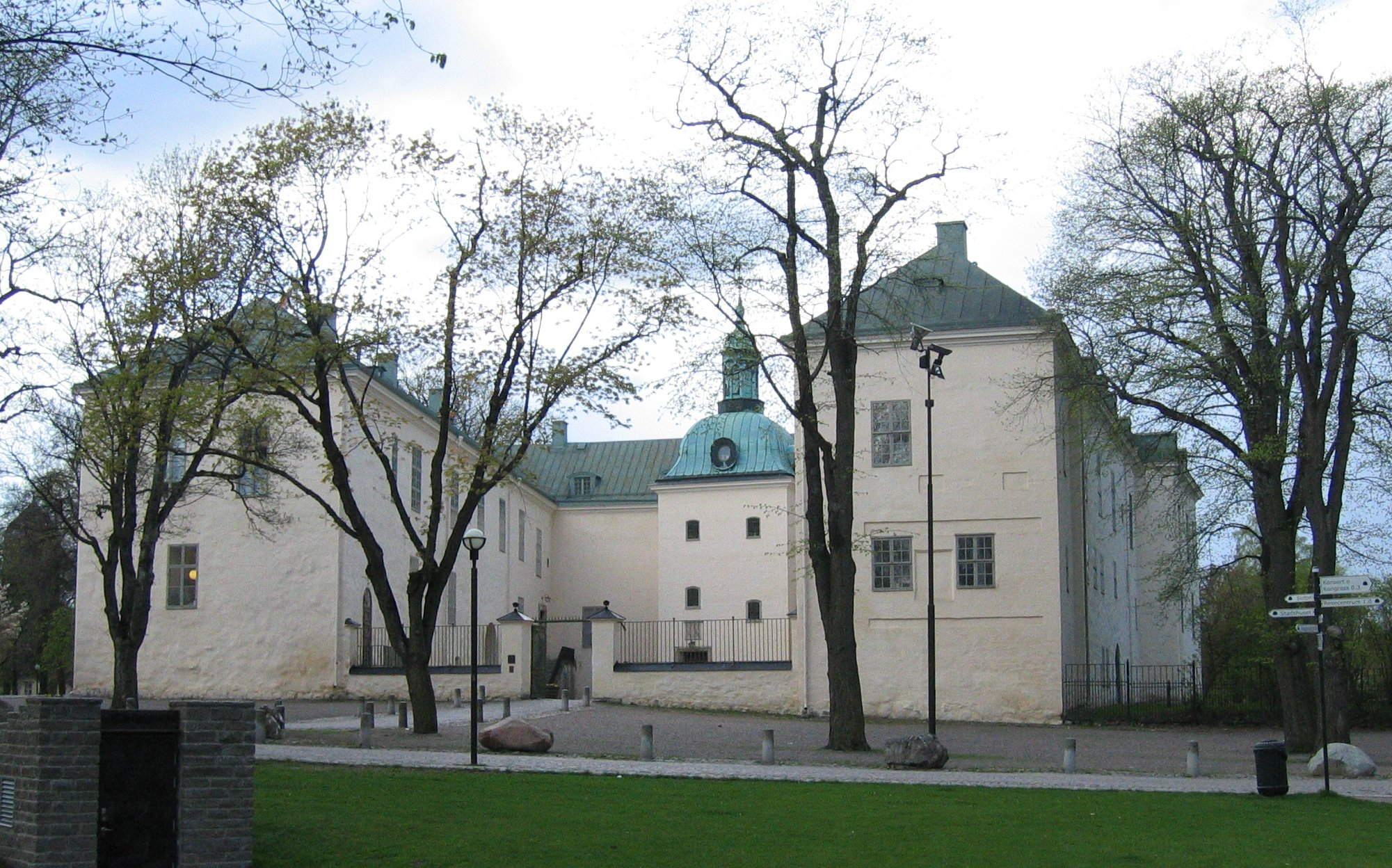 Linköpings slott, castle in Linköping, Sweden, seen from the east.